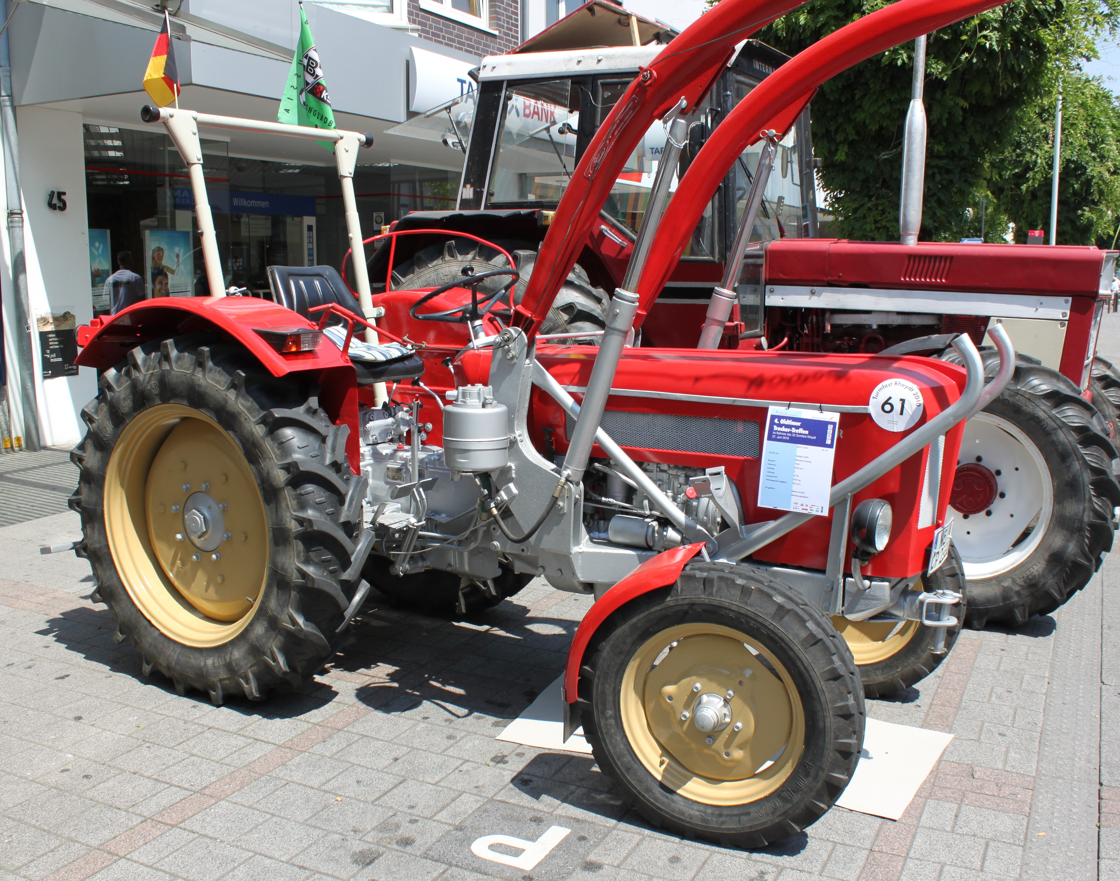 German Schlüter S450 tractor, build 1963 Motor: 3225 ccm Zylinders: 3 Power: 42 HP Weight: 2325 kg Top Speed: 20 km/h